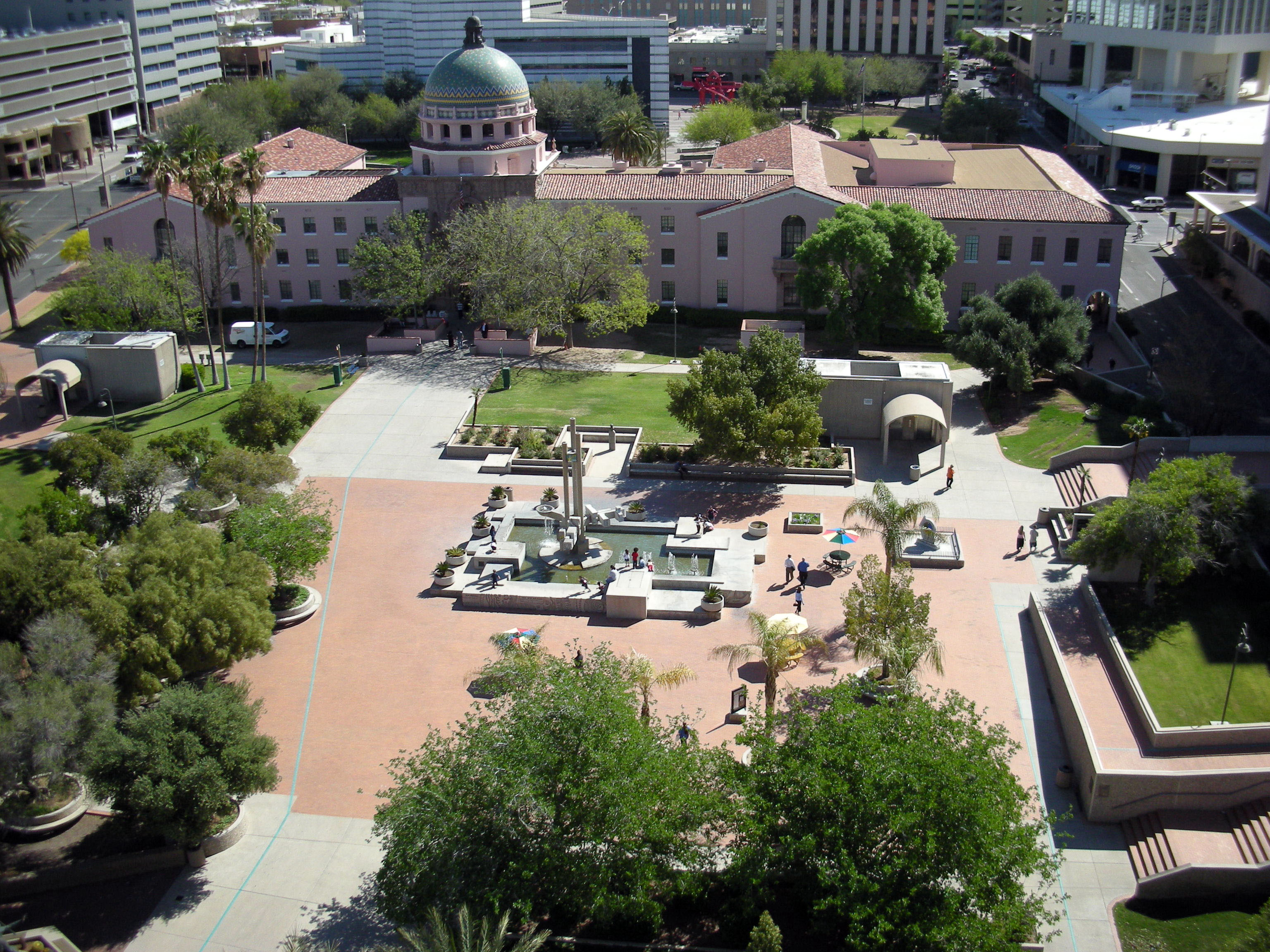 A view of El Presidio Park, behind the old Pima County Courthouse in Tucson, Arizona.